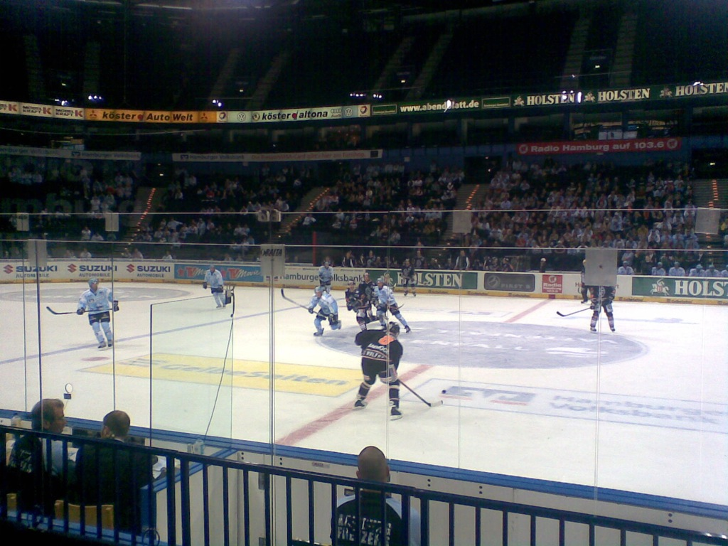 German Ice Hockey Cup 2007